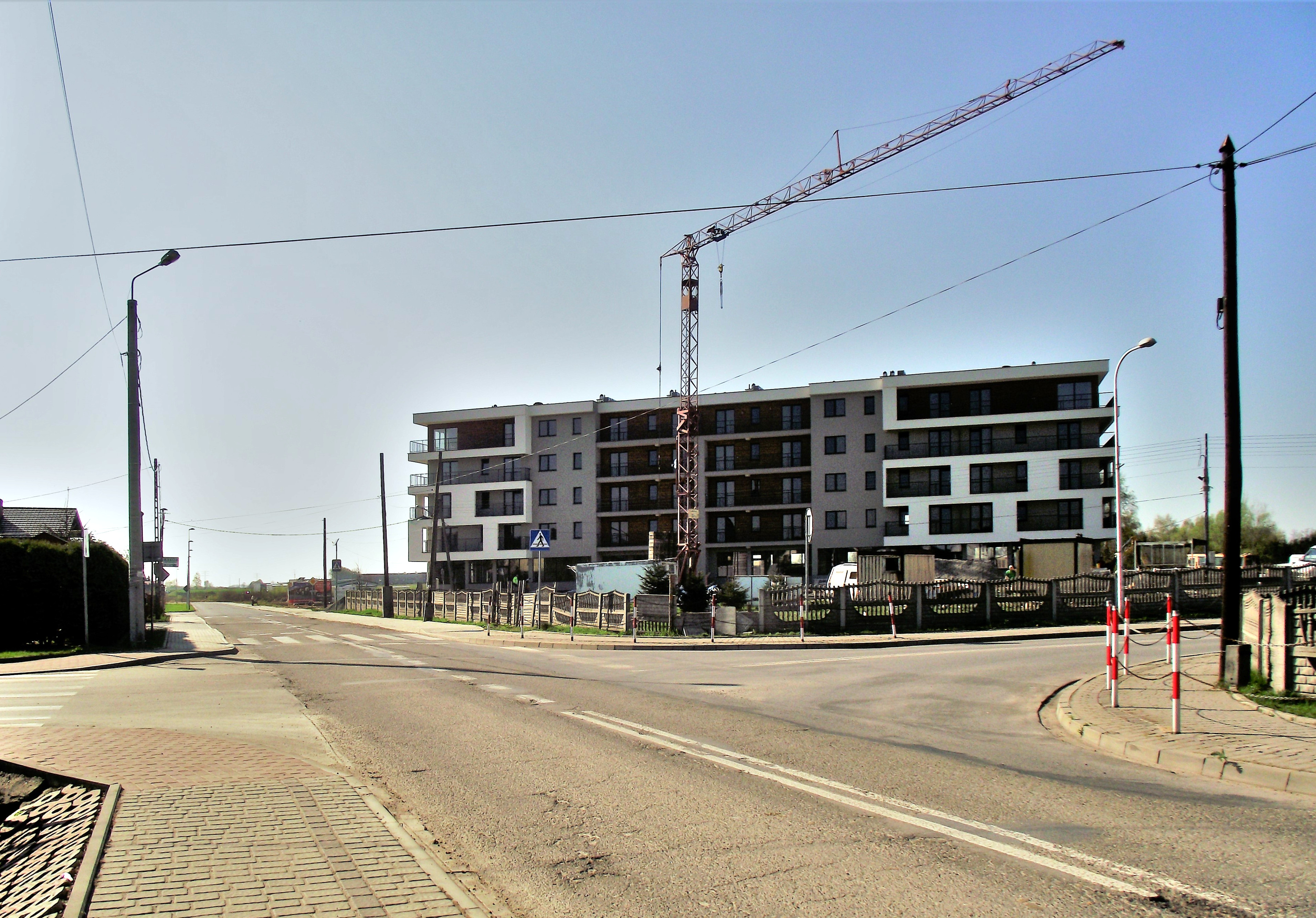 A new residential block at 9-11 Jana Pawła II Street in Zator, Poland.